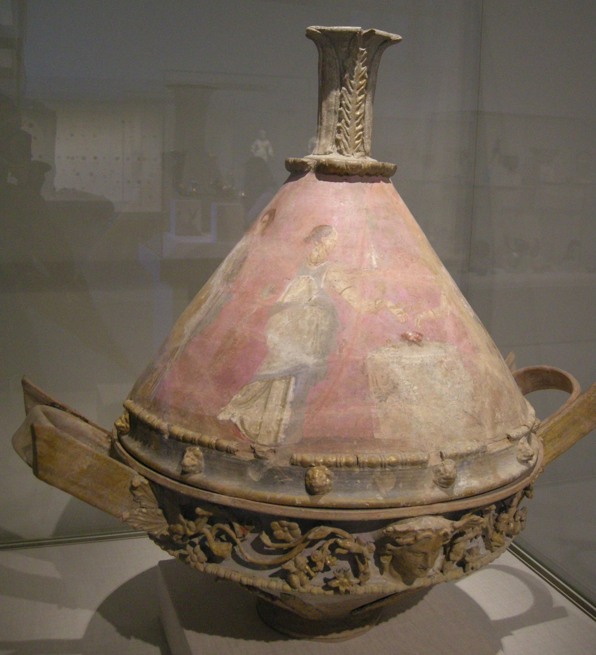 Met, greek from centuripe, terracotta lekanis with lid and finial, 2nd half of 03rd century BC